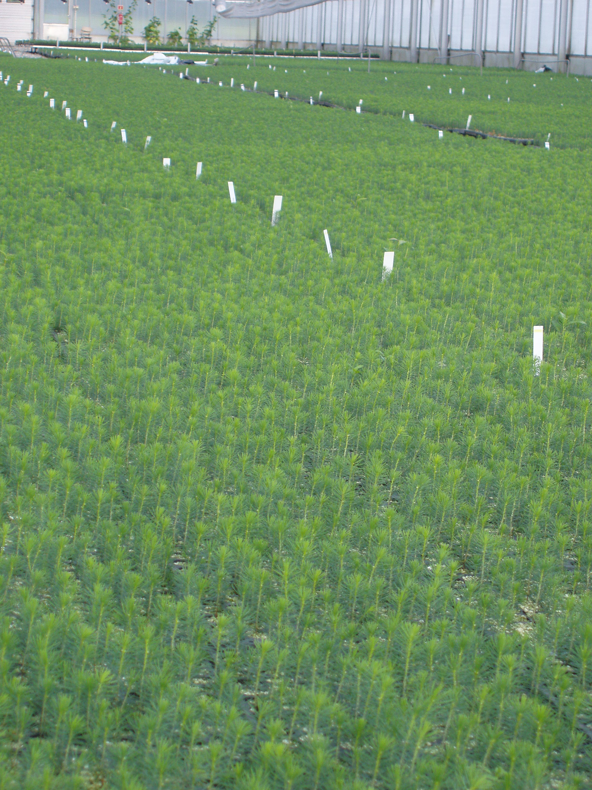 Norway spruce in Alstahaug tree nursery, Norway